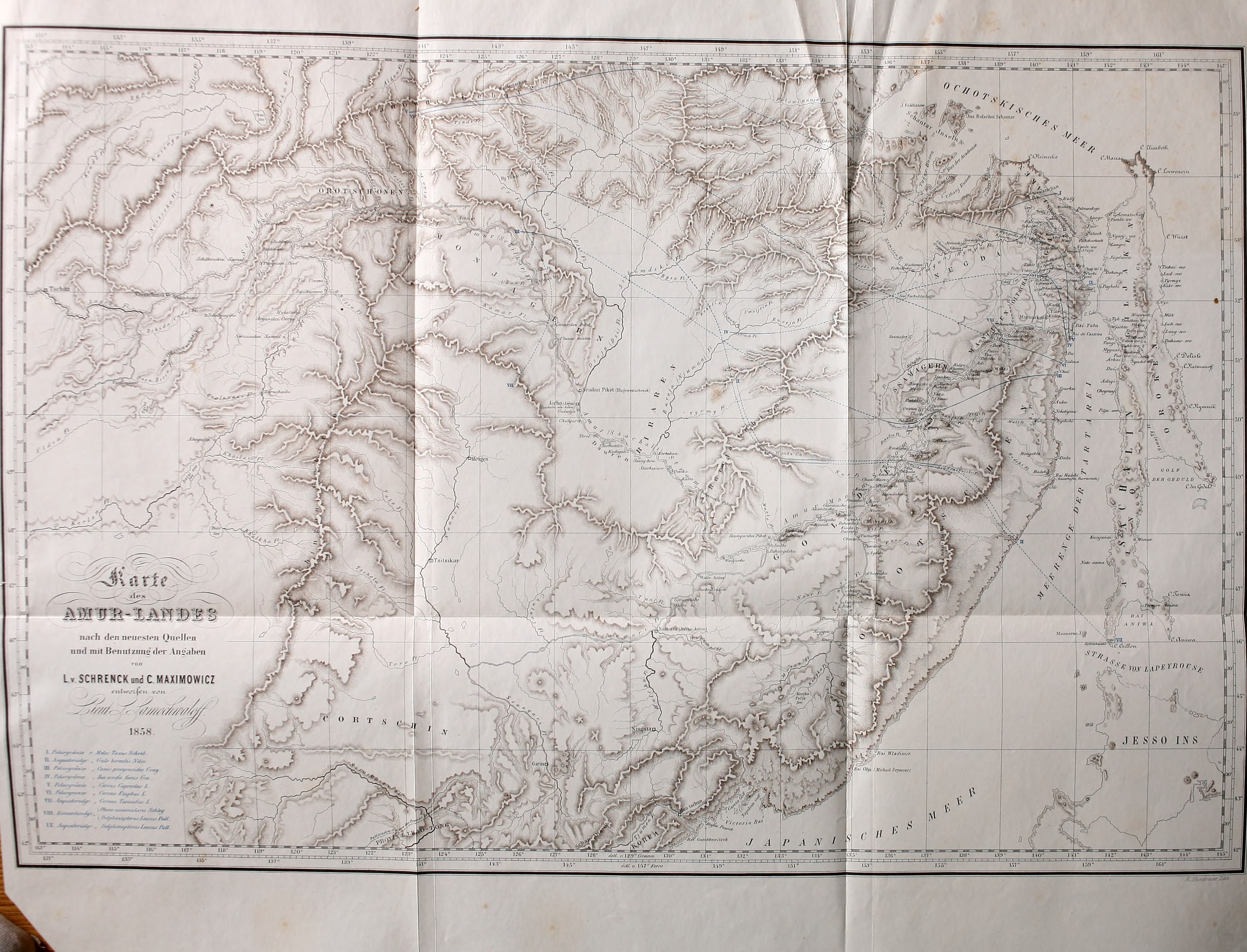 Title: Reisen und forschungen im Amur-lande in den jahren 1854-1856 Year: 1859 (1850s) Authors: Schrenck, Leopold von, 1826-1894 Subjects: Zoology Meteorology Mammals Birds Lepidoptera Beetles Mollusks Publisher: St. Petersburg : K. Akademie der Wissenschaften Text Appearing Before Image: ' Text Appearing After Image: UNIVERSITY OF ILLINOIS-URBANA Q 570 9518SCH7R C001 REISEN UND FORSCHUNGEN IM AMUR-LANDE IN 1 PT.1-2 3 0112 010208590 illll IUI!!